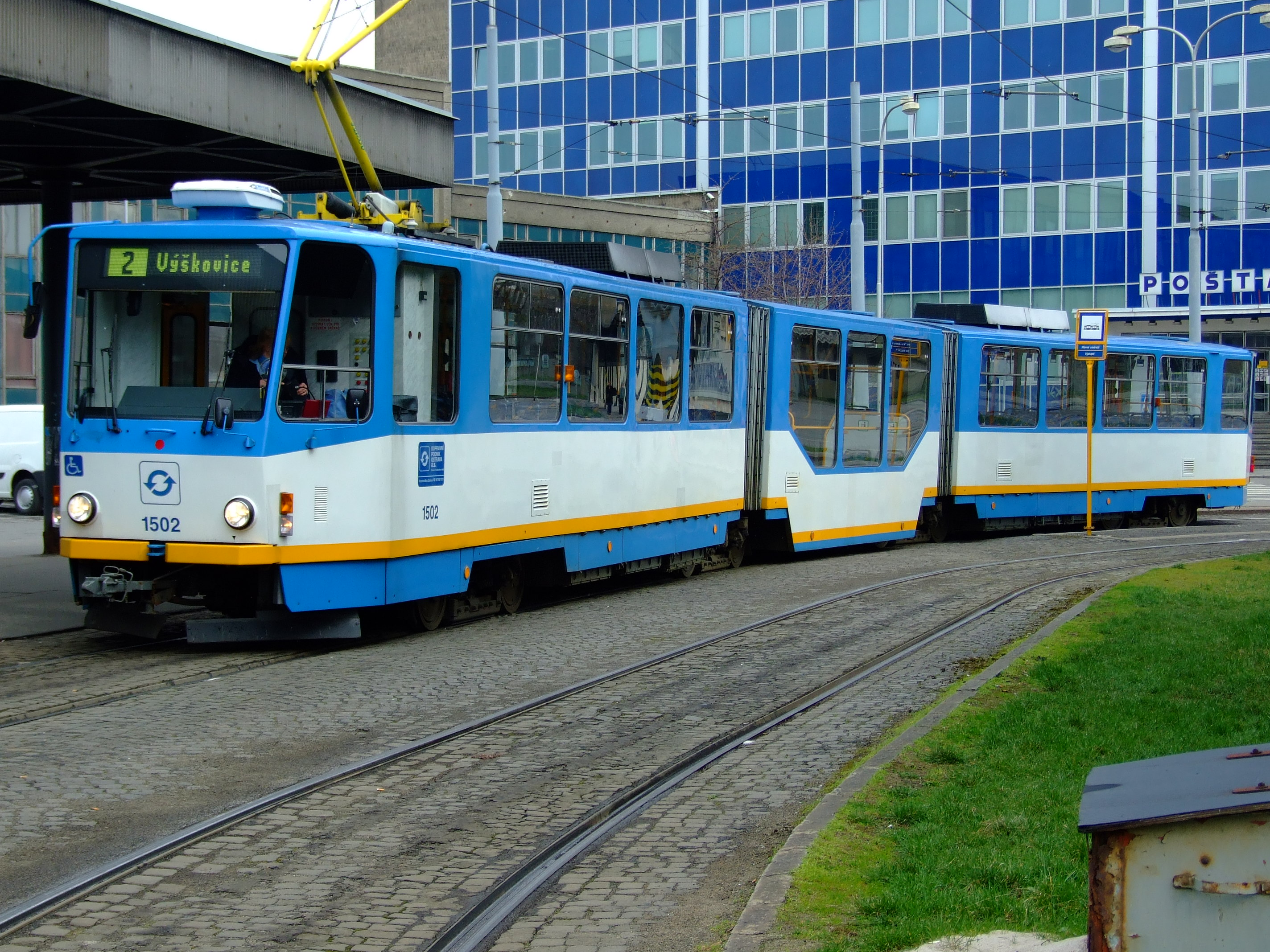 Tram in Ostrava at main rail station terminus, CZ